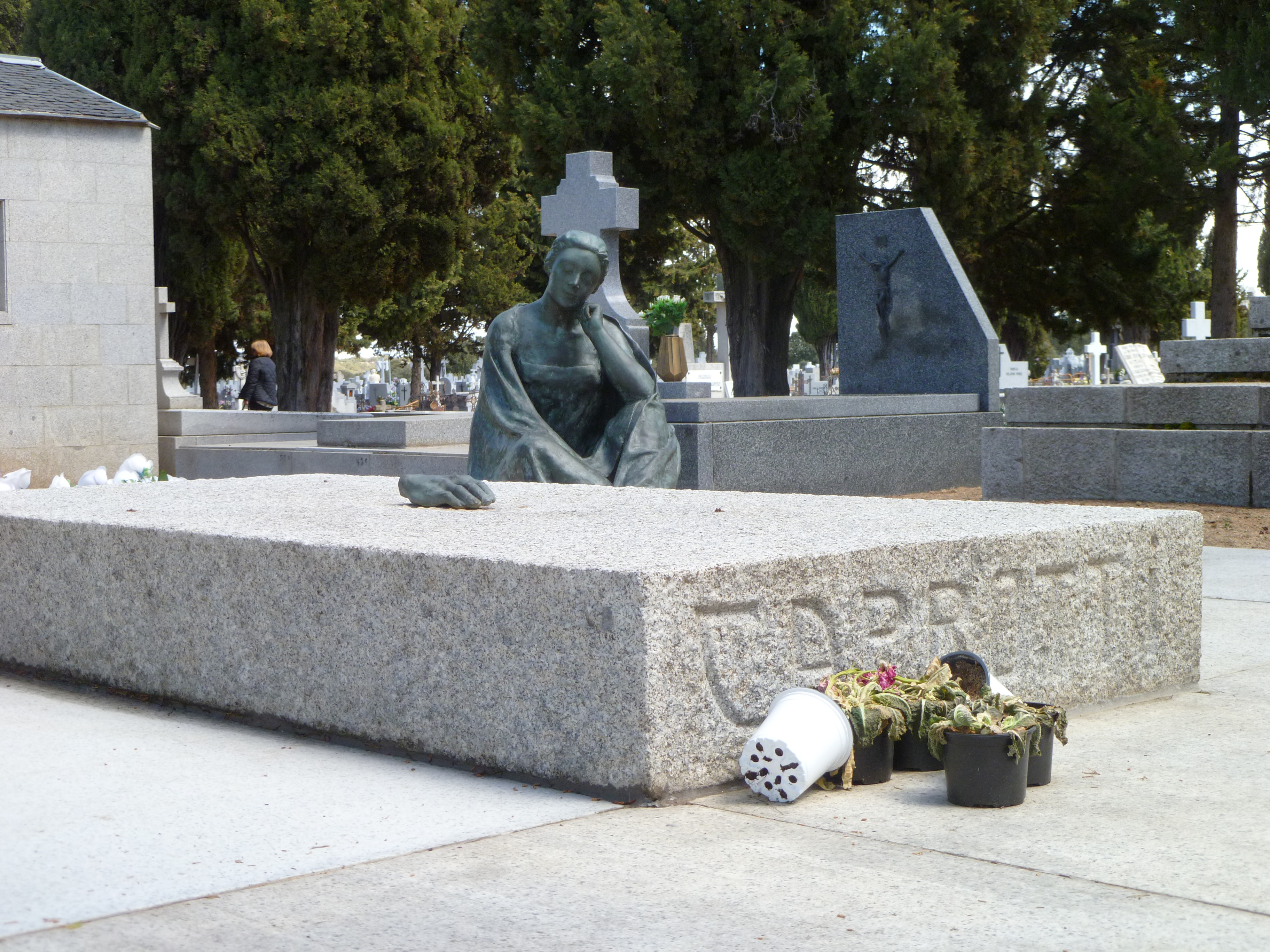 Tumba del pintor Guido Caprotti en Ávila